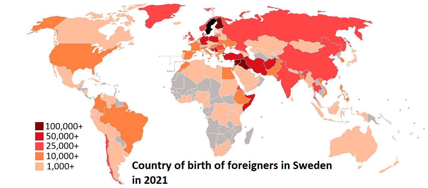 Estimated foreign-born residents in Sweden for 31 December 2001.